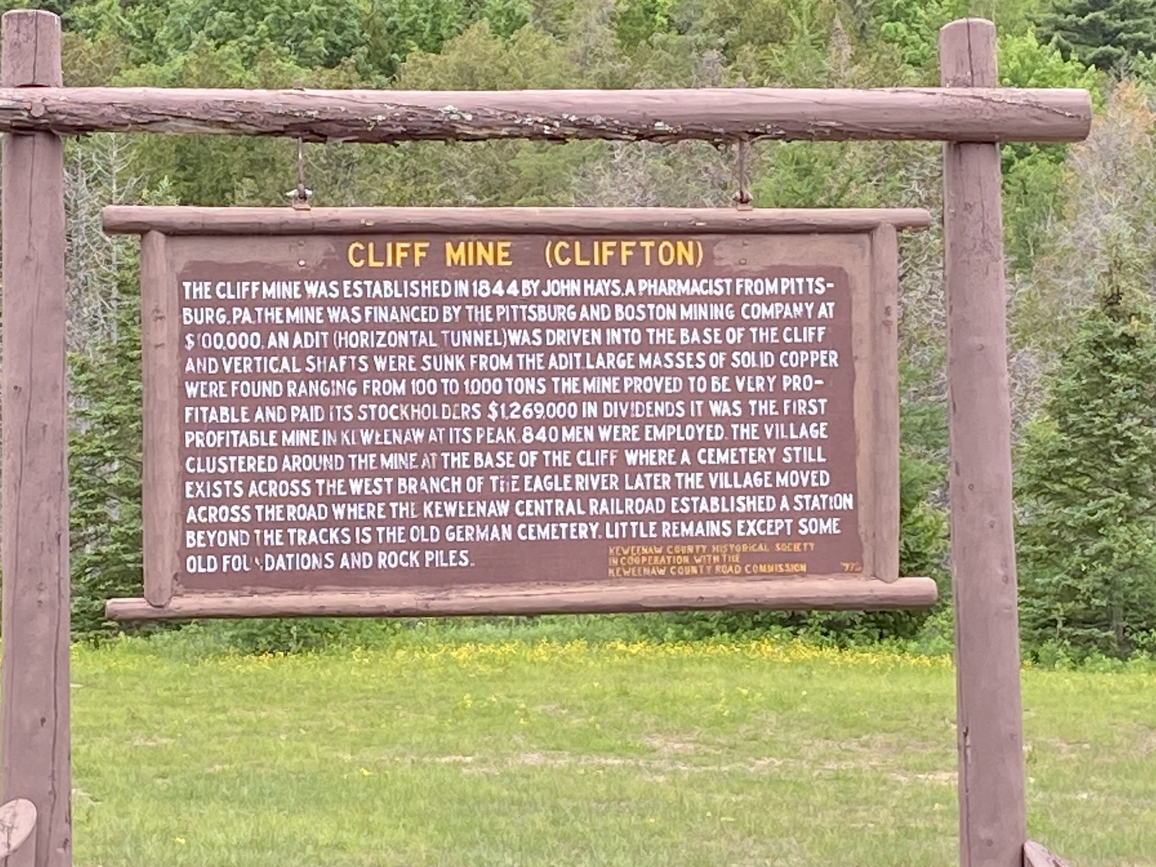 Sign displaying the history of the Cliff Mine in Cliffton, Michigan.